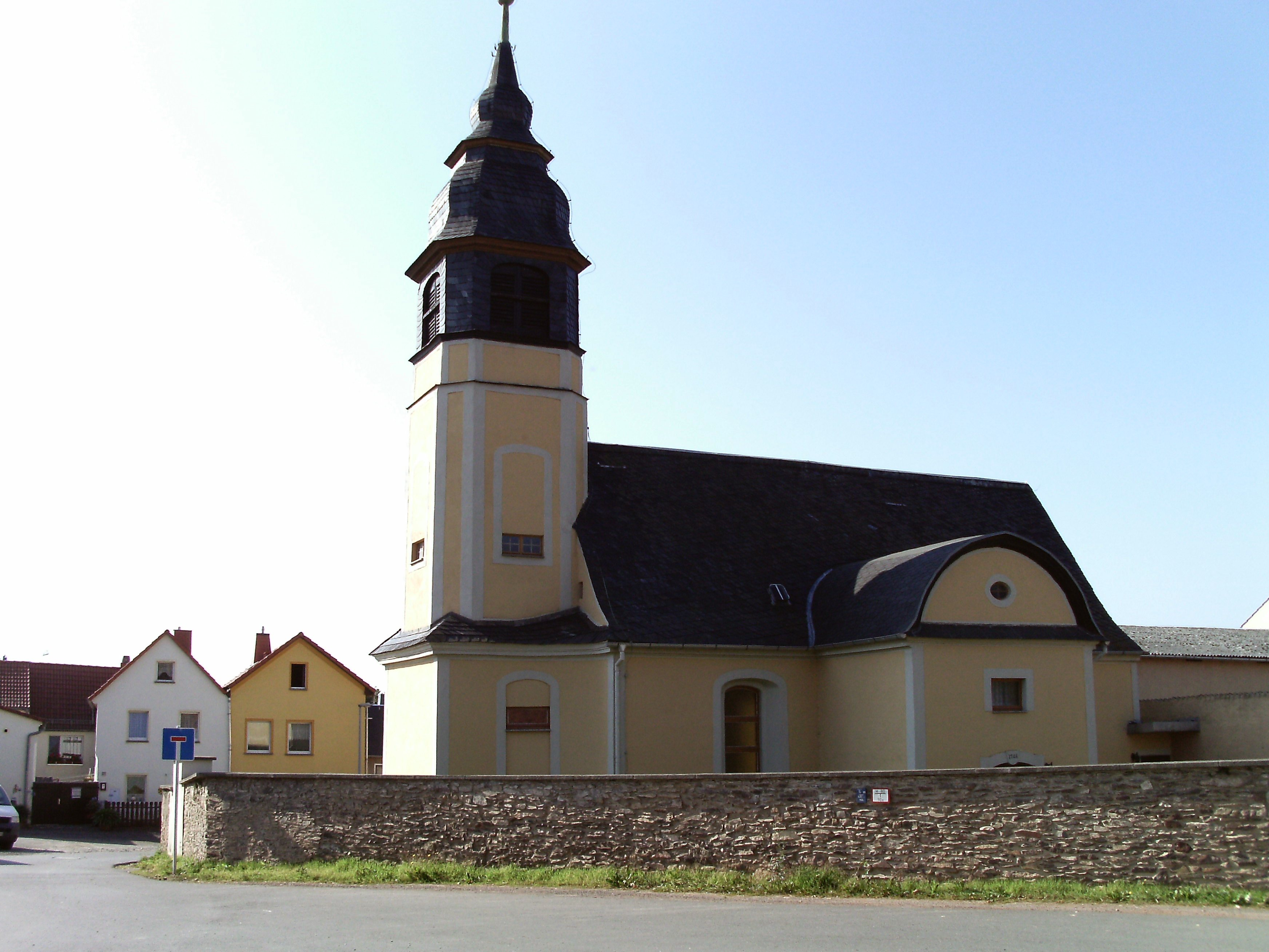 Church of the village of Köckritz (Harth-Pöllnitz, Greiz district, Thuringia)